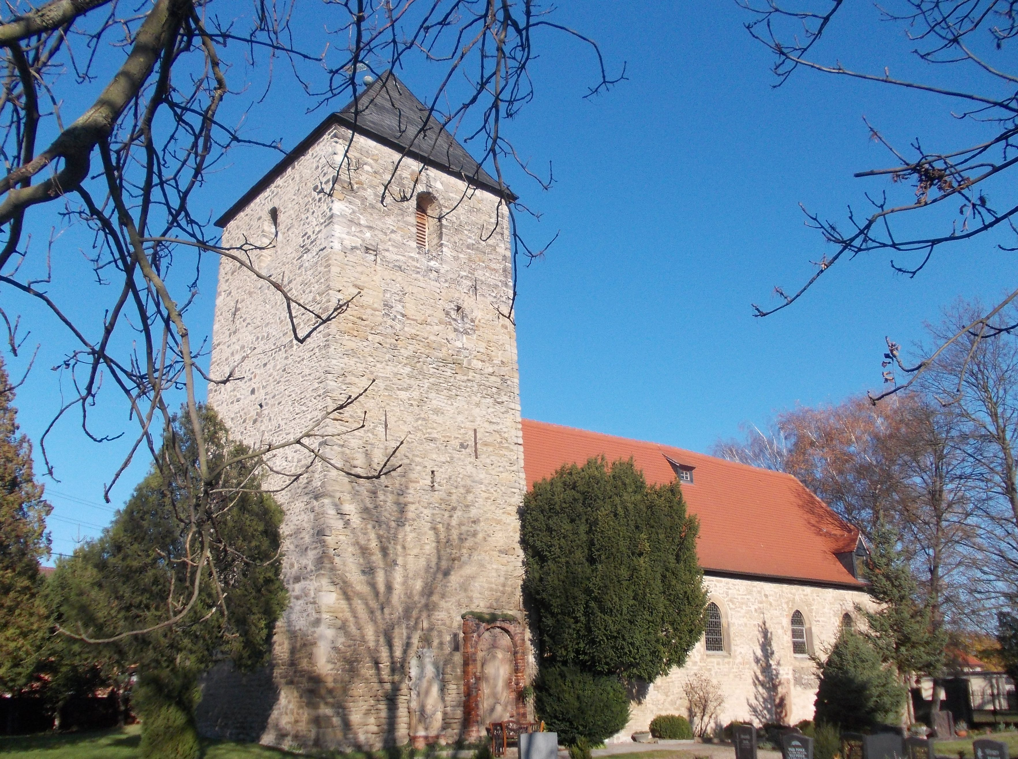 St. George's Church in Geusa (Merseburg, district: Saalekreis, Saxony-Anhalt)